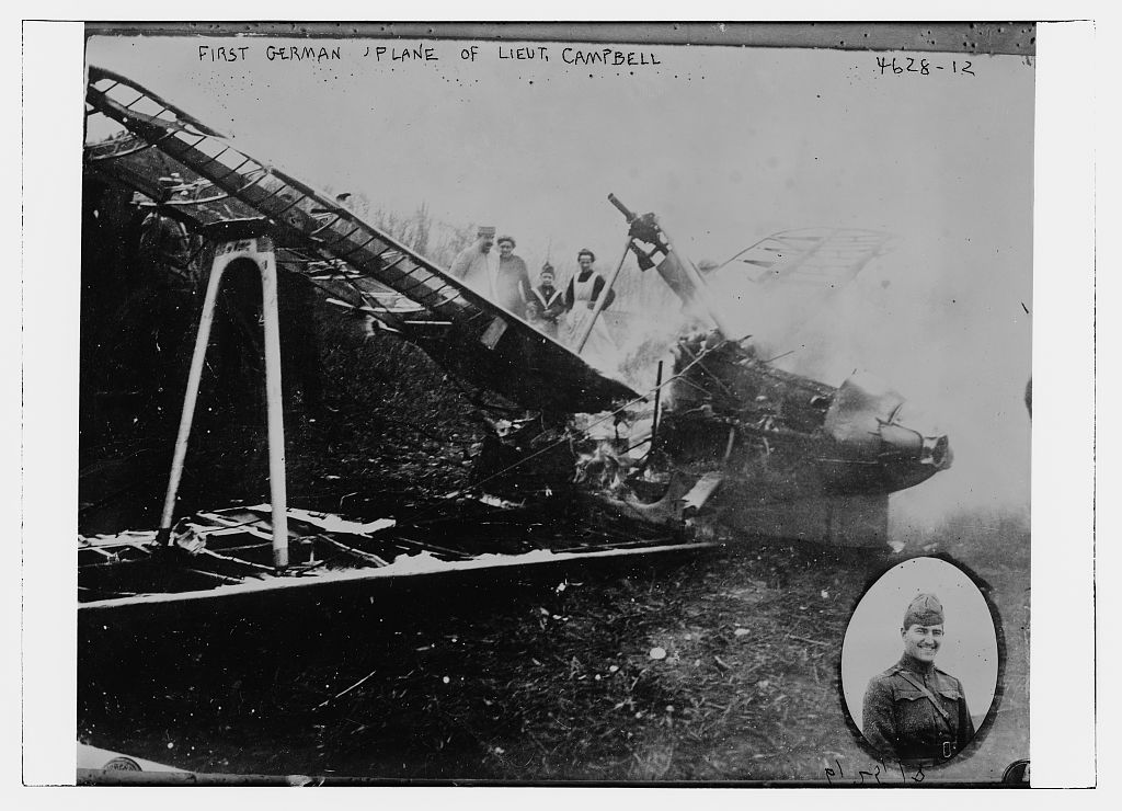 Bain News Service,, publisher. First German Plane of Lieut. Campbell [between ca. 1915 and ca. 1920] 1 negative : glass ; 5 x 7 in. or smaller. Notes: Title from data provided by the Bain News Service on the negative. Forms part of: George Grantham Bain Collection (Library of Congress). Format: Glass negatives. Repository: Library of Congress, Prints and Photographs Division, Washington, D.C. 20540 USA, General information about the Bain Collection is available at Higher resolution image is available (Persistent URL): Call Number: LC-B2- 4628-12